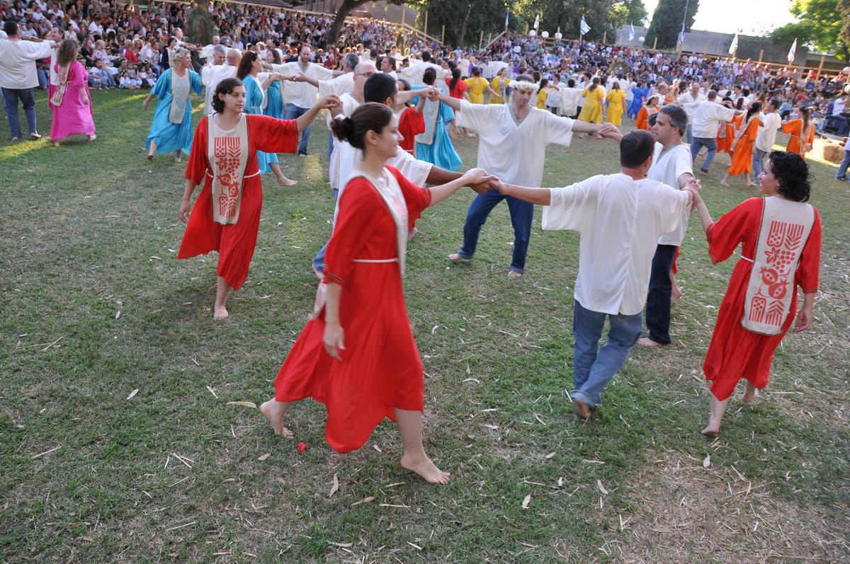 Jewish holidays